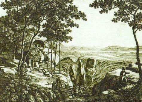 Carl August Richter (1770-1848): "on top of the Brand".